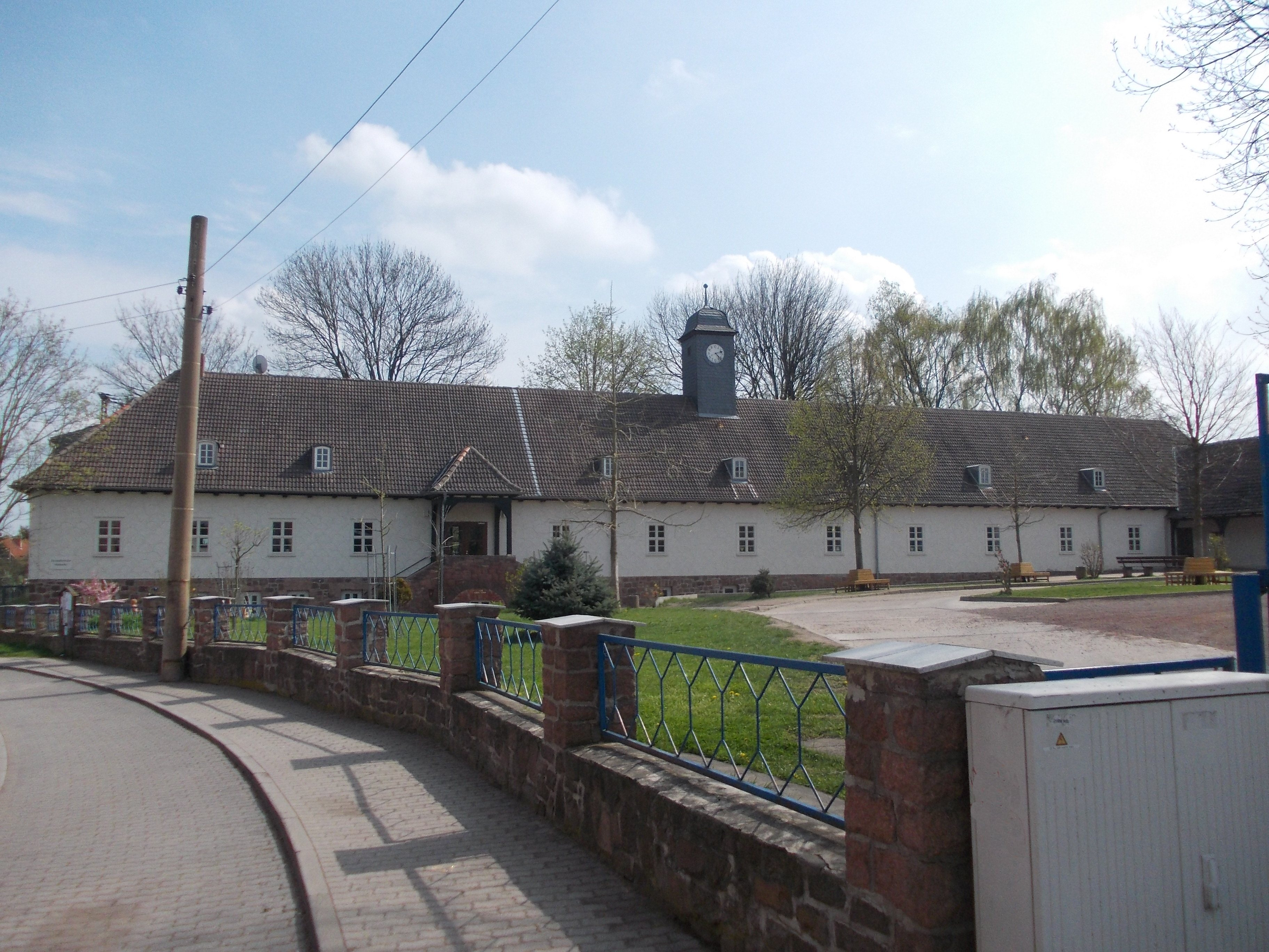 Elementary school in Wallwitz (Petersberg, district: Saalekreis, Saxony-Anhalt)